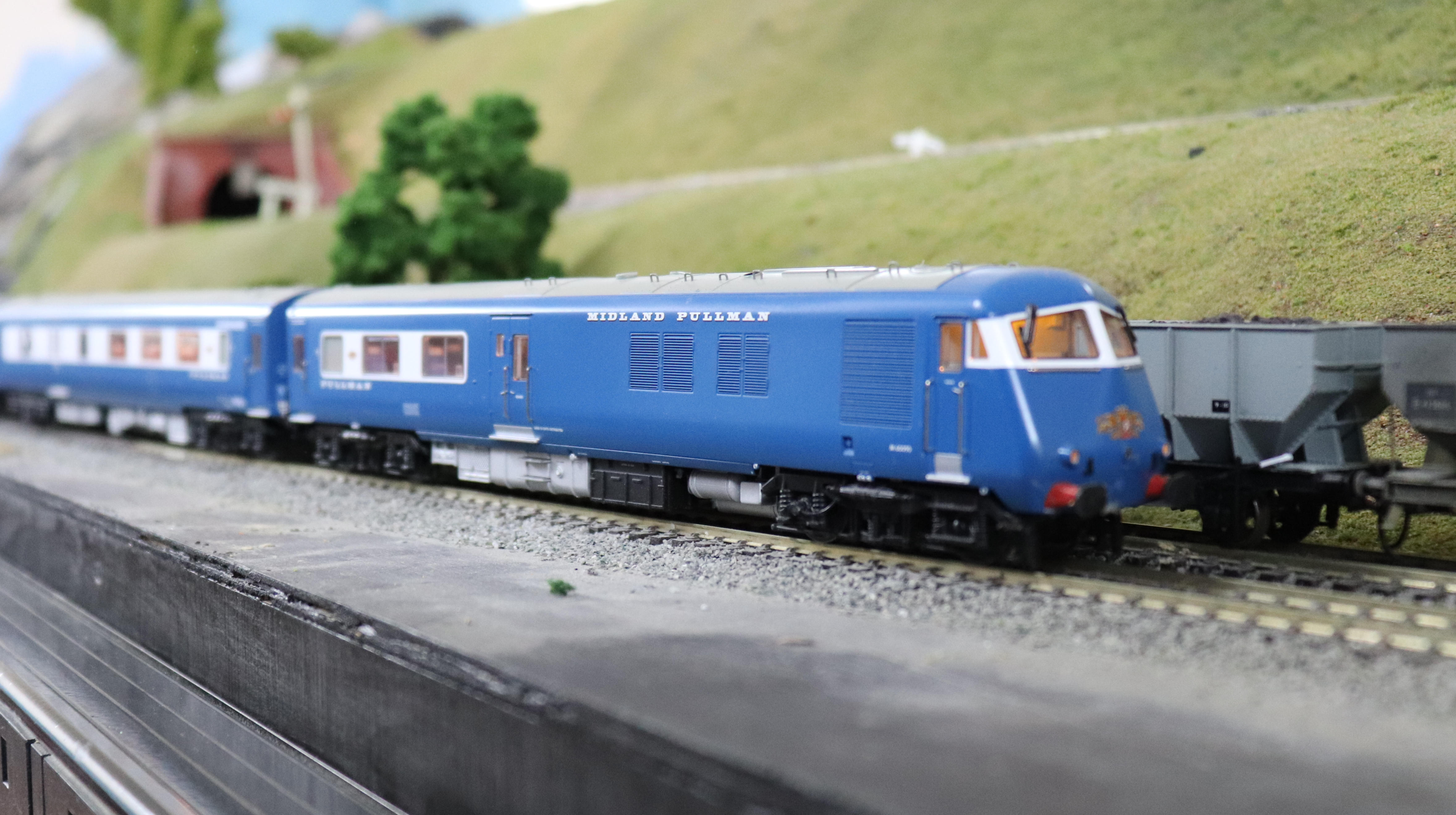 Bachmann OO gauge Blue Pullman power car